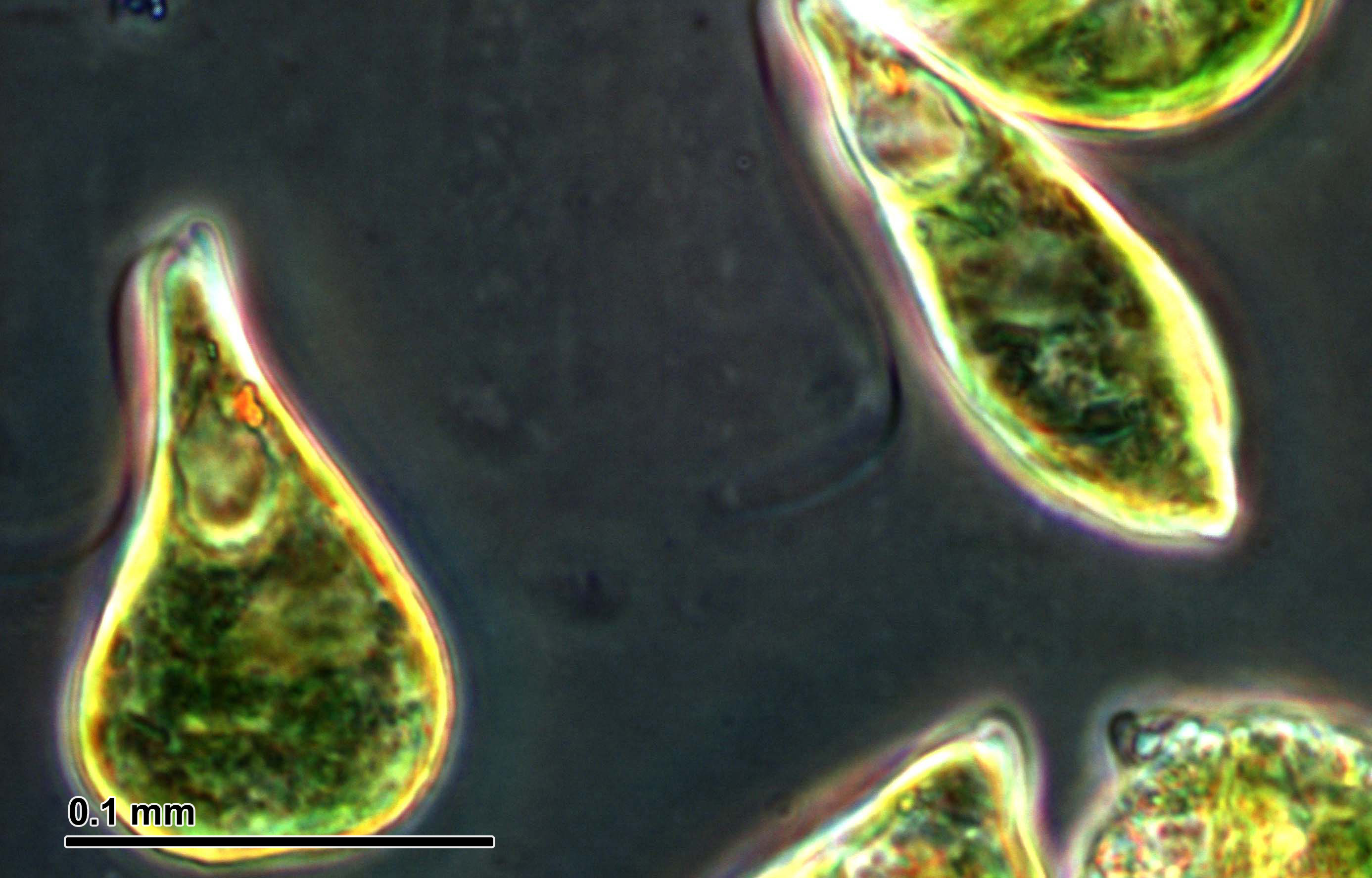 Euglena sp (Euglena). Optical microscopy technique: Negative phase contrast. Magnification: 800x (for picture width 26 cm ~ A4 format).